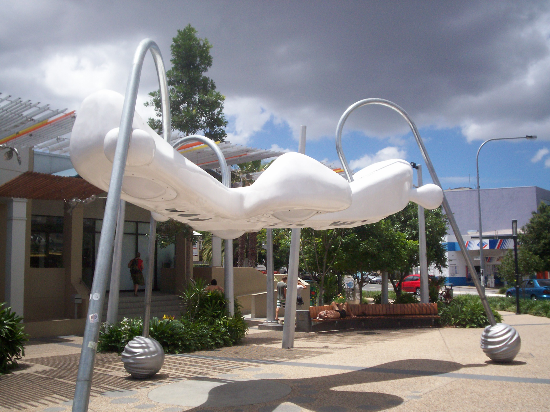 Weird Bug-thing installation near the Boundary St, Melbourne St and Mollison St intersection - 070106 West End, Brisbane, Queensland, Australia